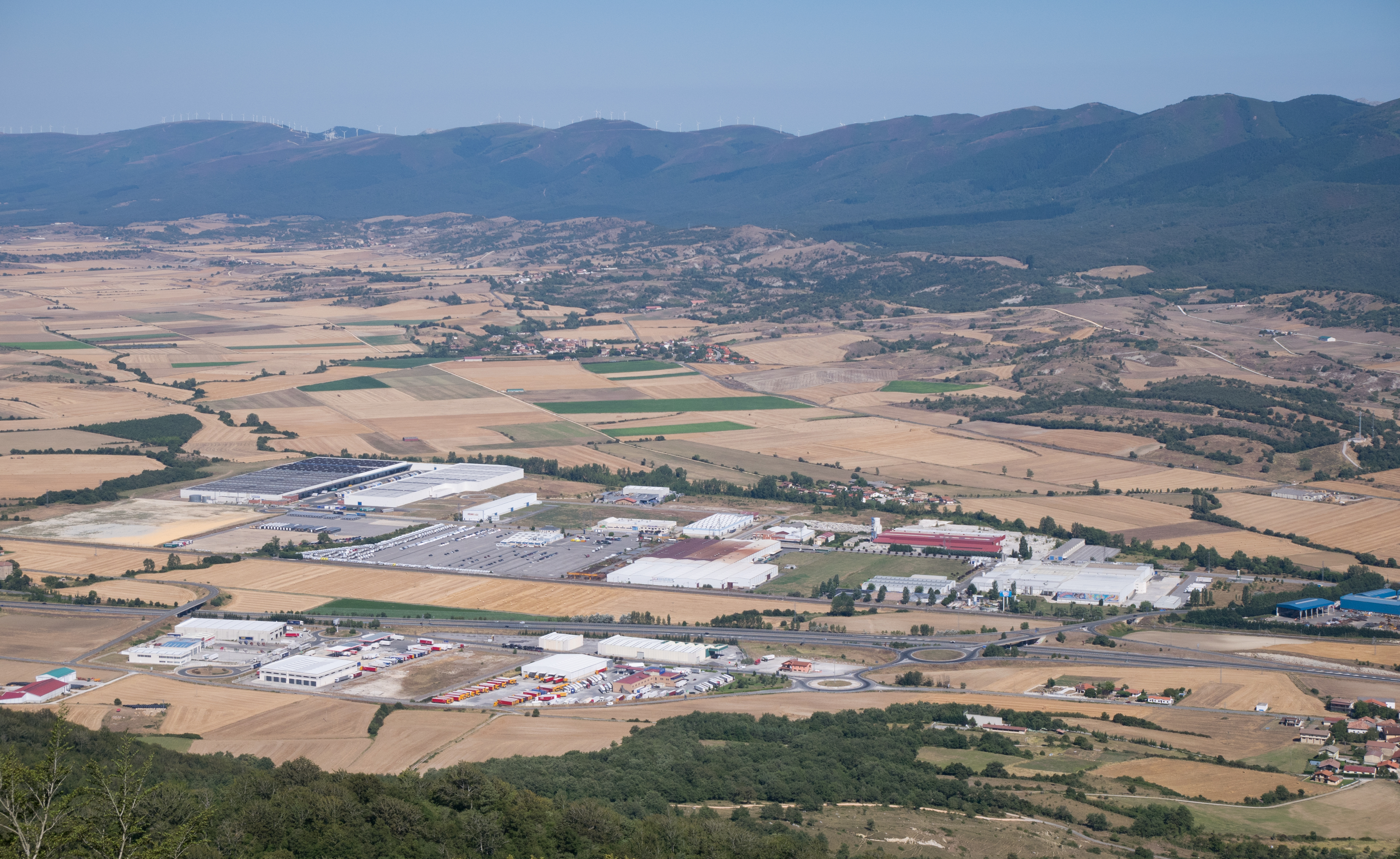 Industrial park of the municipalities of Asparrena and San Millán. Álava, Basque Country, Spain